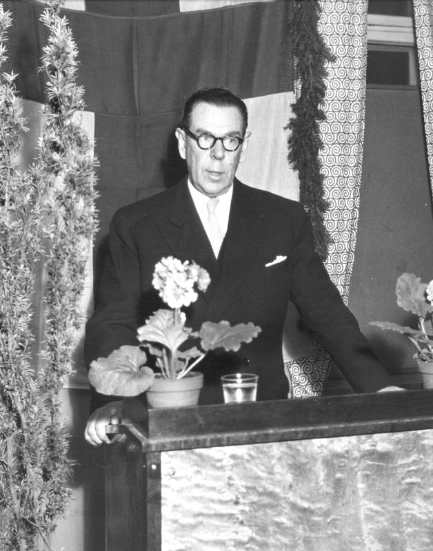 Photograph of the Finnish general manager Harald Roos (1895–1969) giving a speech.